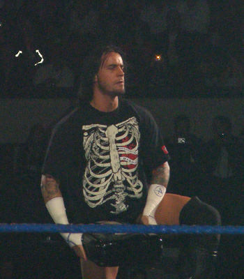 CM Punk @ Adelaide, South Australia 'Smackdown/ECW' house show on the 14th of June '08